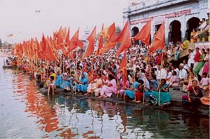 Ram Kund, Nashik